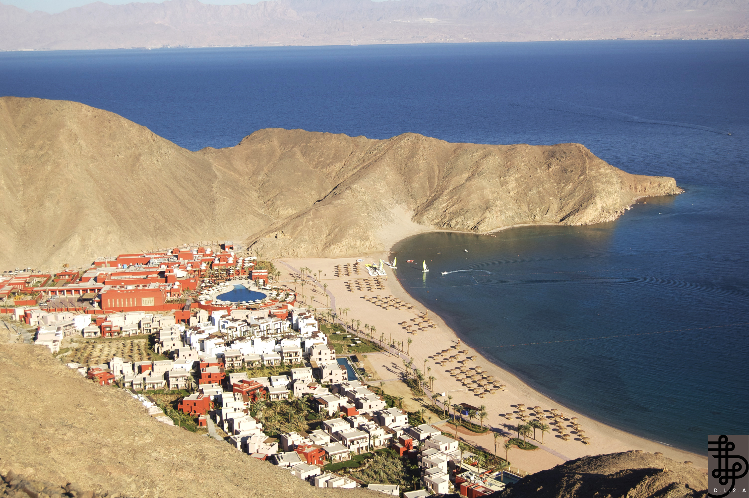 DL2A Club Med Sinaï Bay TABA Egypte